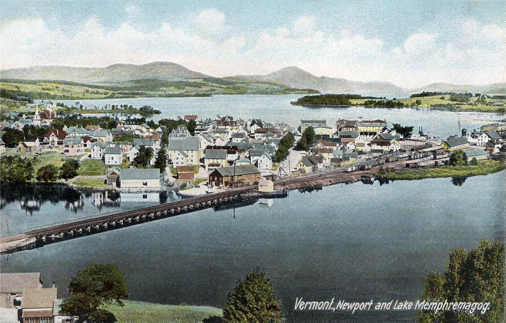 Bird's-eye view of Newport, Vermont and Lake Memphremagog